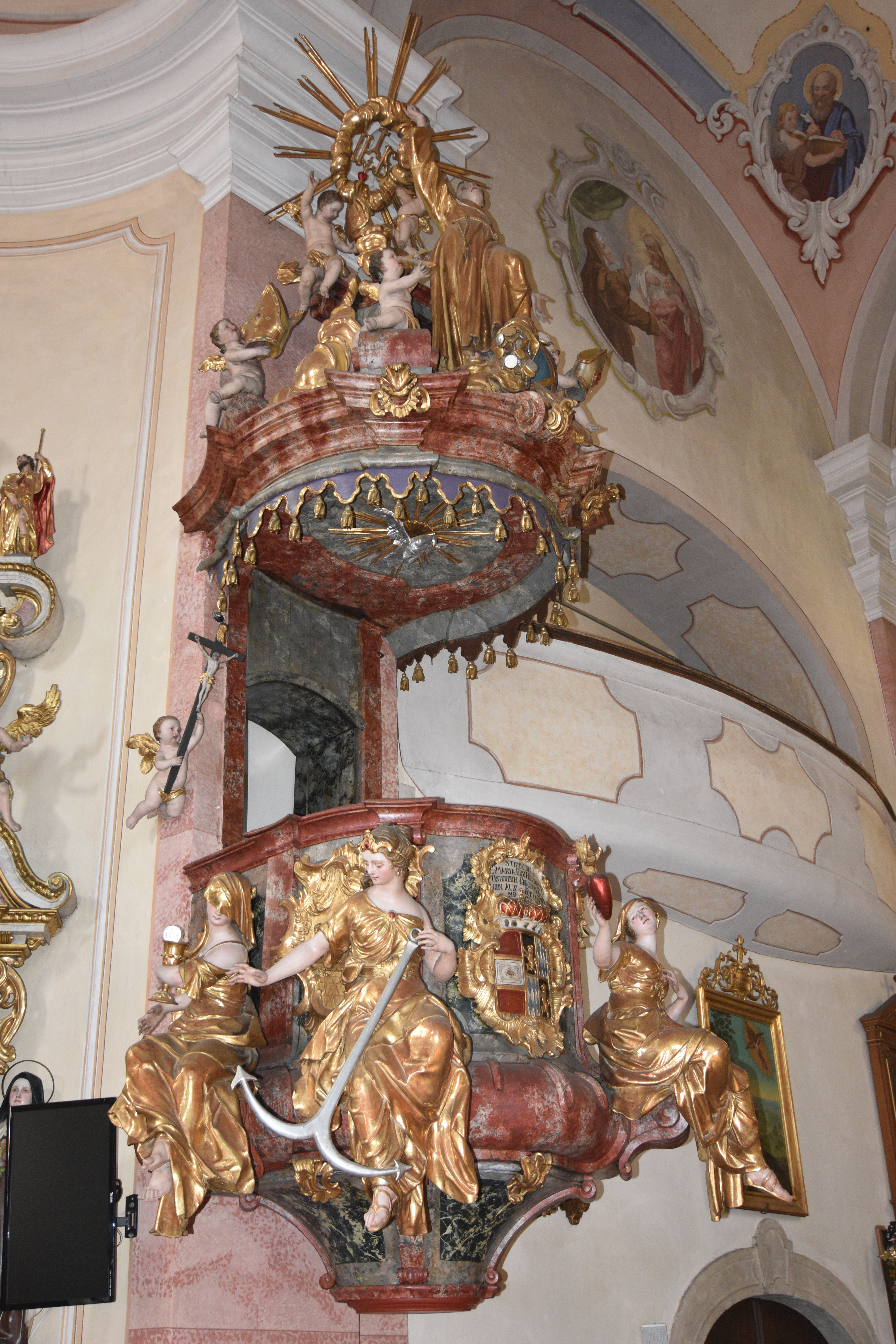 Church Nestelbach Nestelbacher Kanzel von Veit Königer